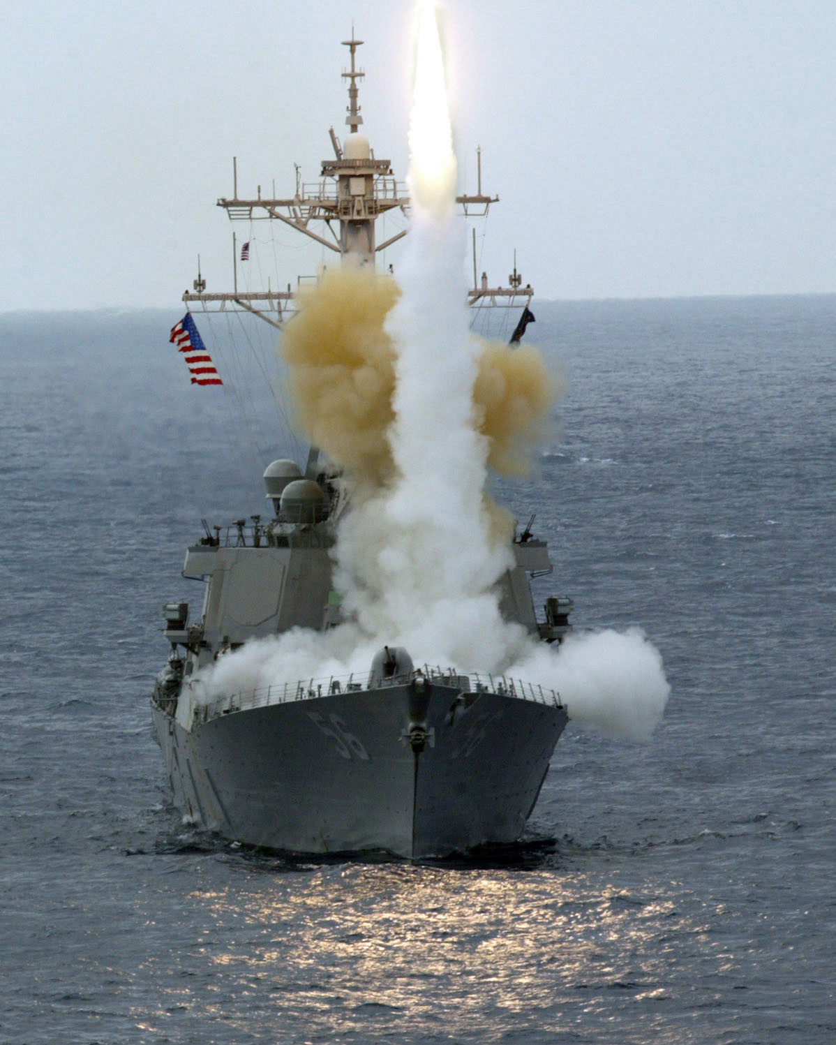 Bow on view of the US Navy (USN) ARLEIGH BURKE CLASS (FLIGHT I): GUIDED MISSILE DESTROYER (Aegis), USS JOHN S. McCAIN (DDG 56), launching a missile from the ships forward Vertical Launch System, during a missile firing exercise conducted off the coast of Okinawa, Japan.